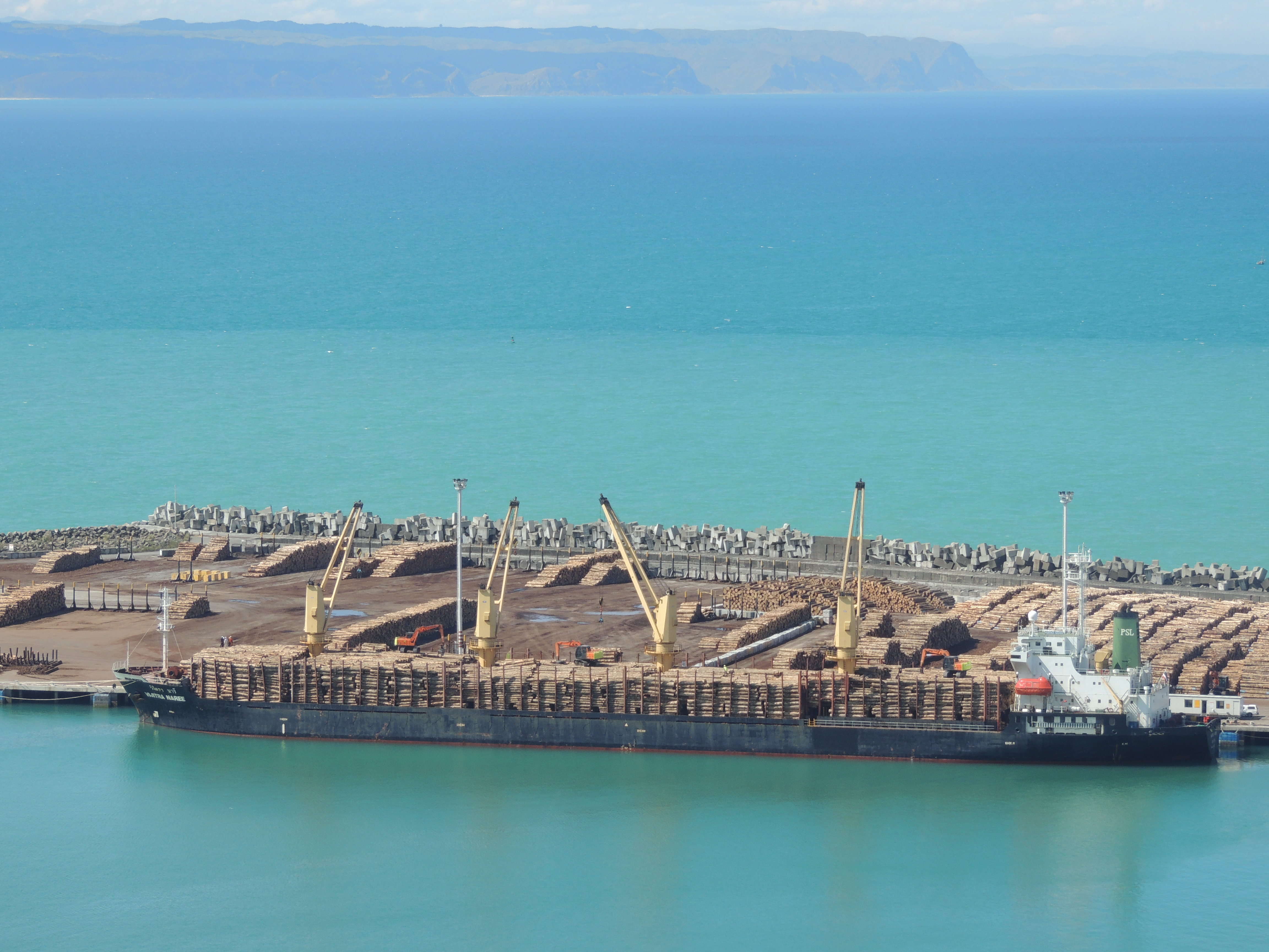 Taken from Bluff Hill Lookout, Napier. Picture taken by: Jennifer Whiting